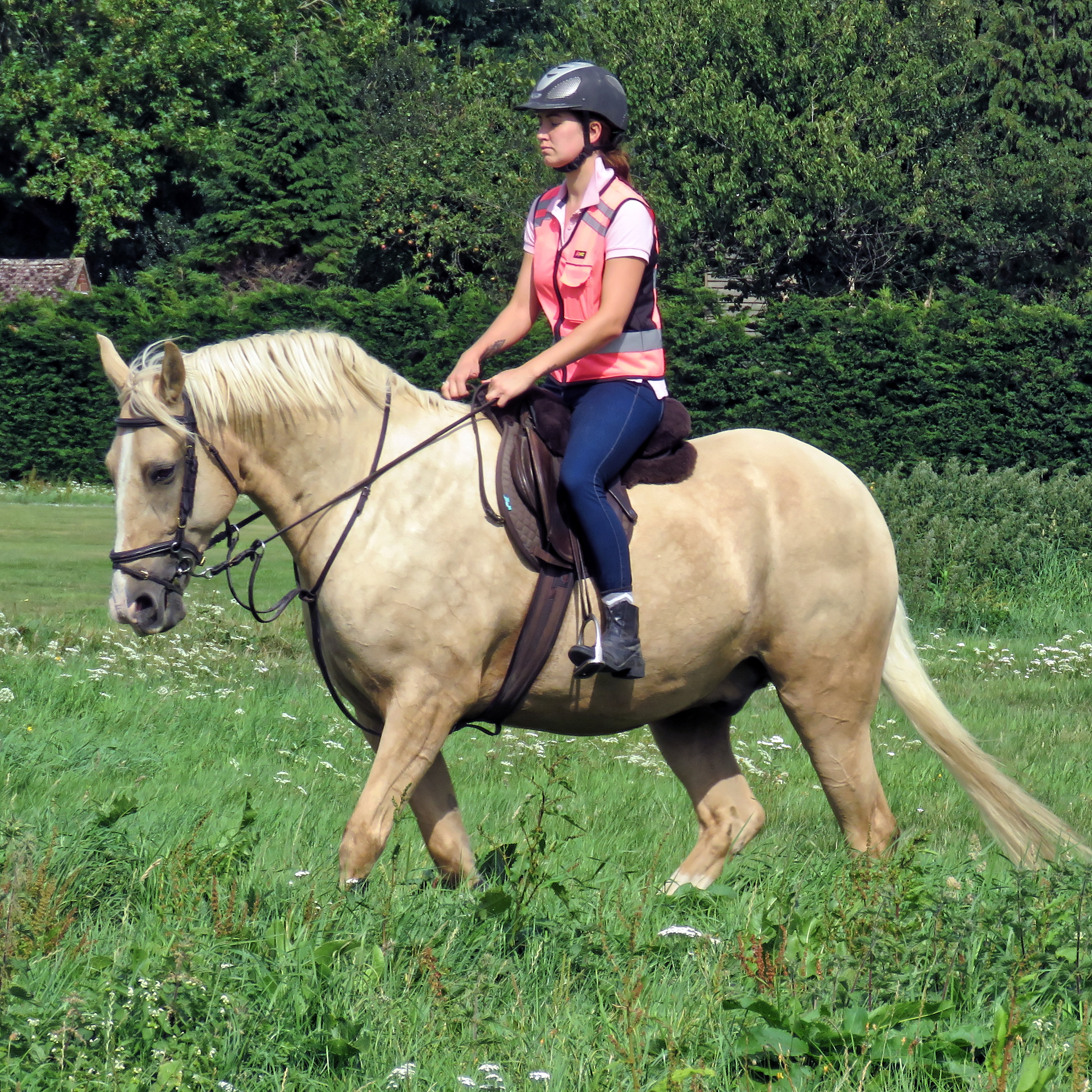 A palomino horse ridden on the village green of Matching Green, Essex, England.Camera: Canon PowerShot SX60 HSSoftware: File lens-corrected, optimized, perhaps cropped, with DxO OpticsPro 11 Elite, and likely further optimized with Adobe Photoshop CS2.